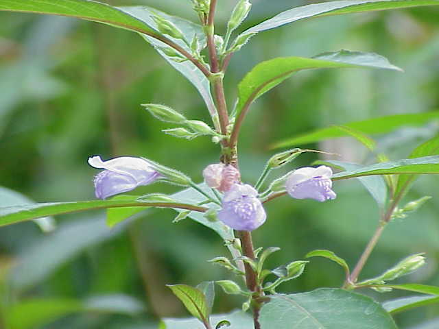 Species: Unidentified Scrophulariaceae Family: Scrophulariaceae Image No. 2